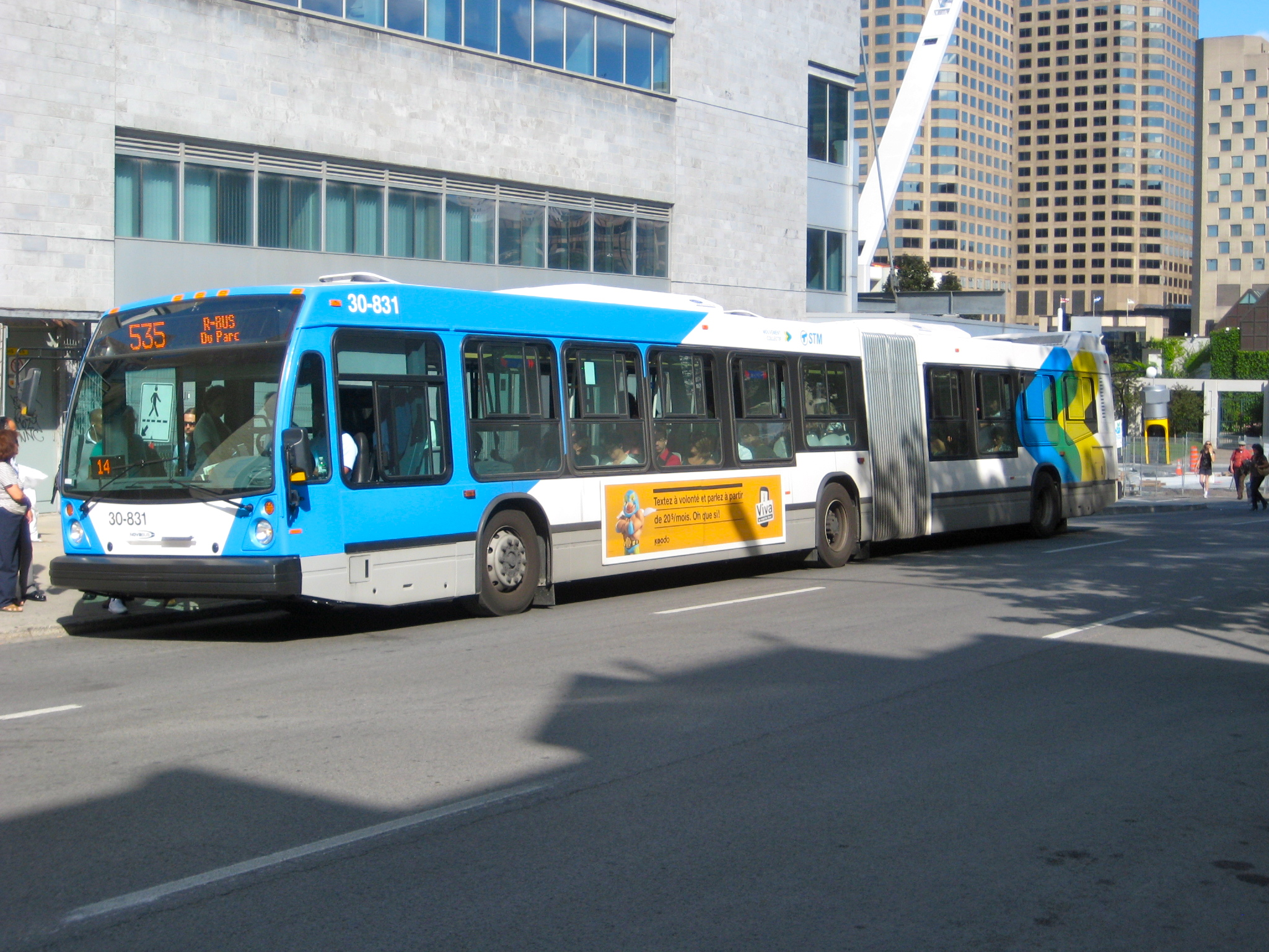 An STM Novabus LFS articulated bus on route 535